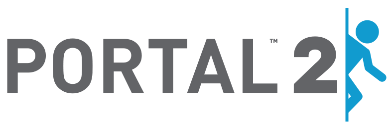 Logo of Portal 2.